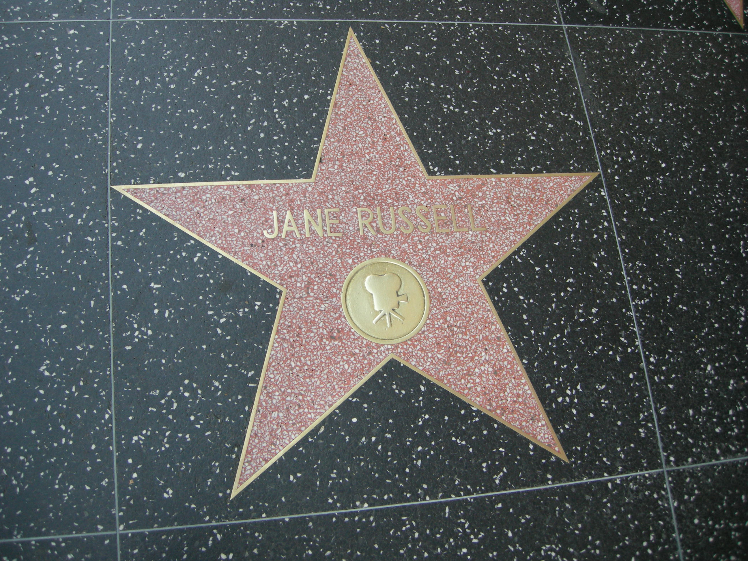 Walk of fame, jane russell